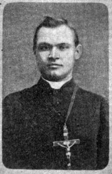 Francis Xavier Nies (b. June 11, 1859, at Rehringhausen, Olpe, Roman Catholic Archdiocese of Paderborn, died November 1, 1897 Juye County, Shandong), German missionary of the Society of the Divine Word, killed in the Juye Incident.